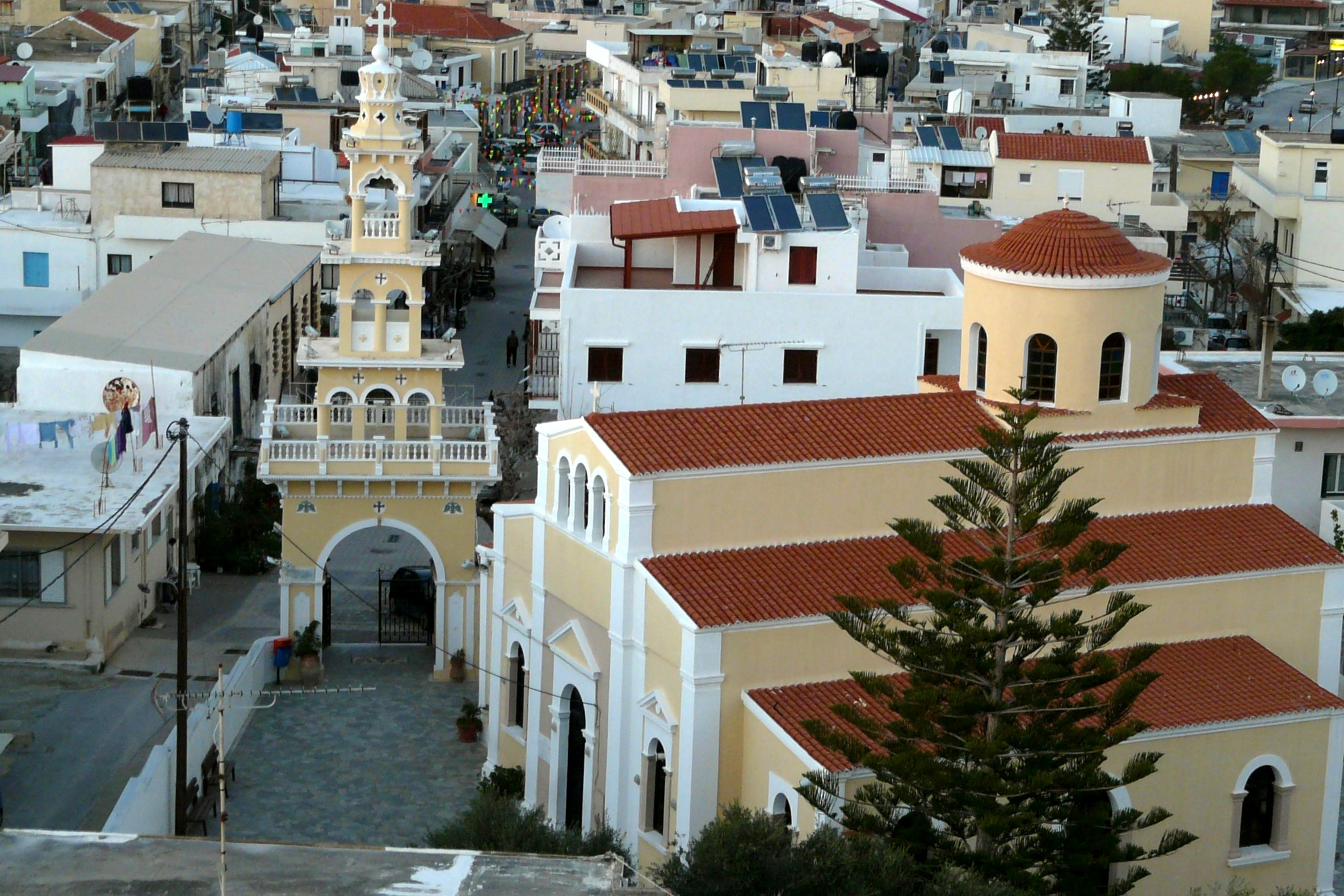 Palaiochora church, Crete, Greece